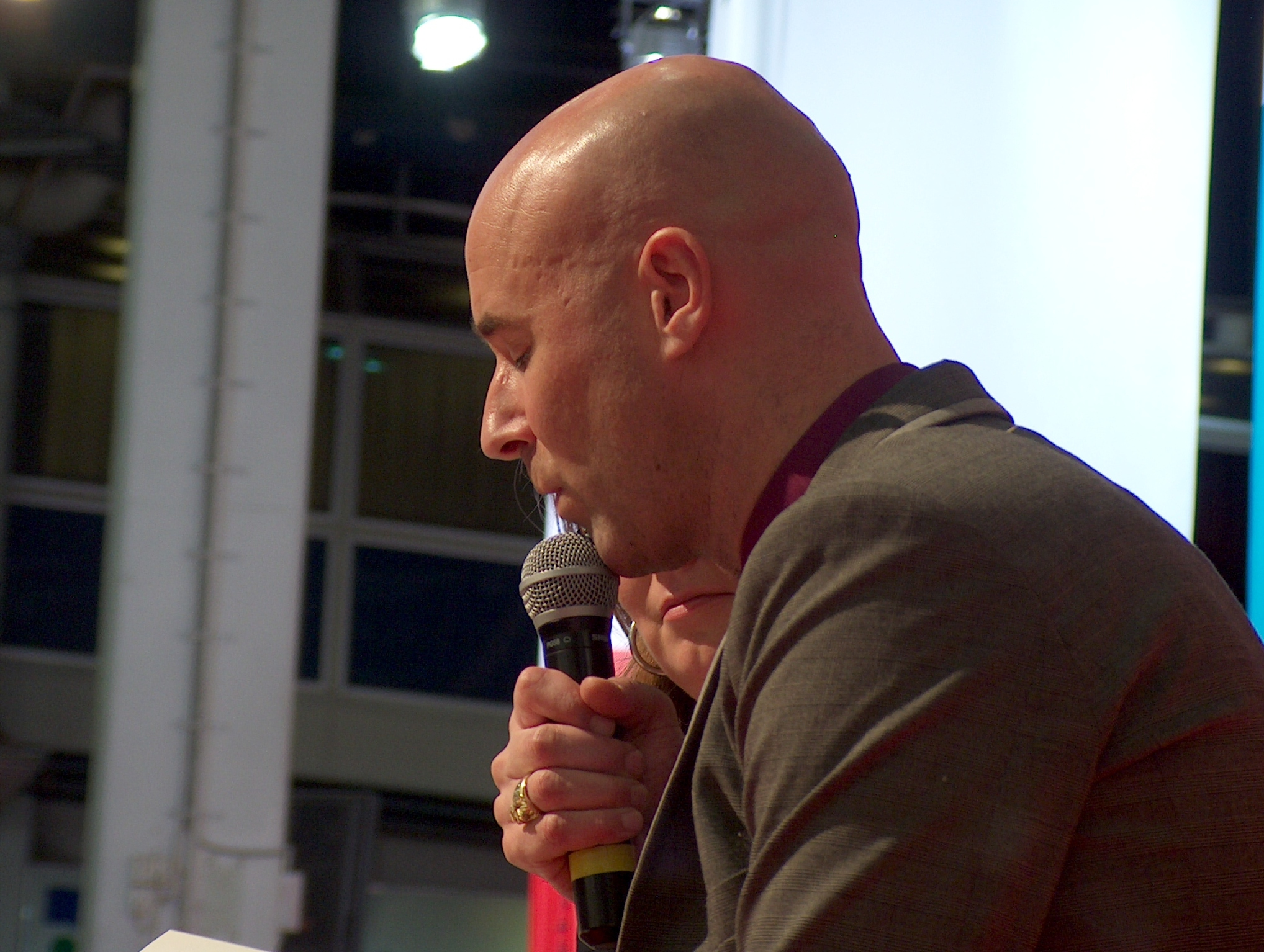 Mark Levengood, Finnish writer and tv-presenter, reading his new book at the Helsinki Book Fair 2008